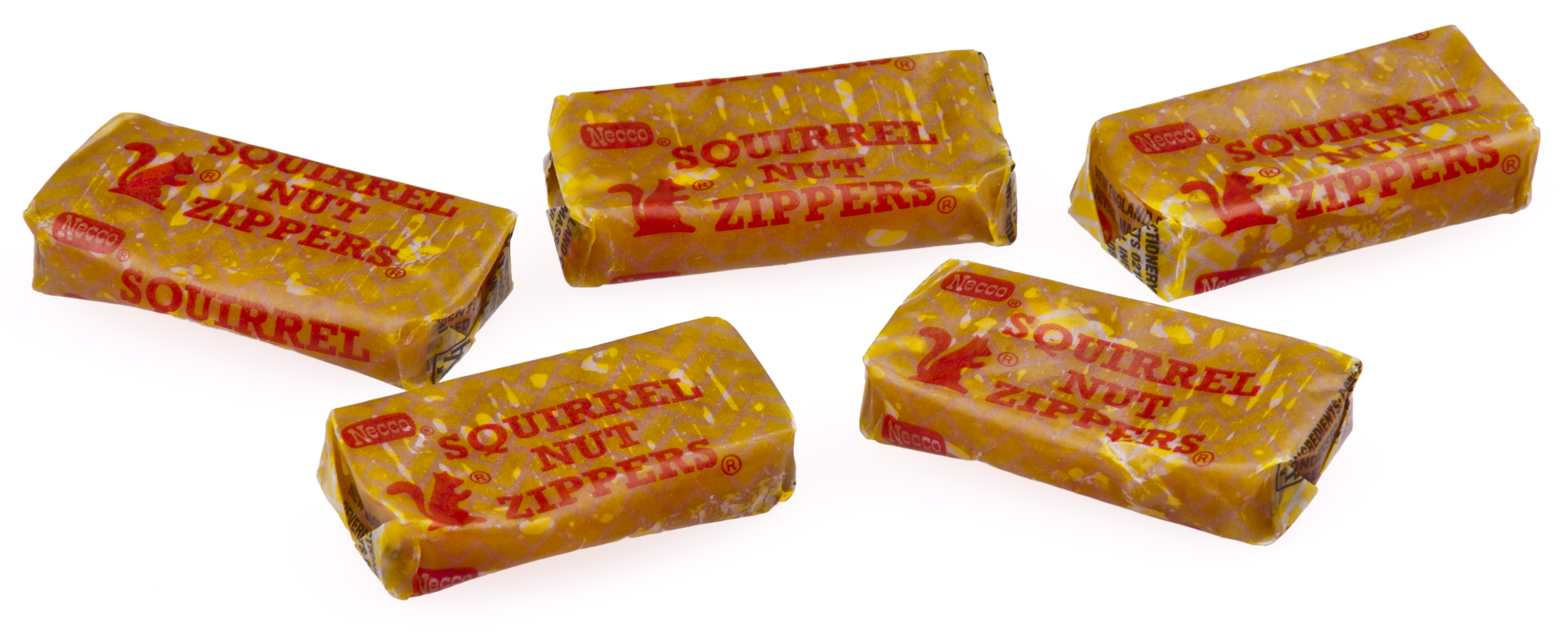 Squirrel Nut Zippers candies, made by Necco.